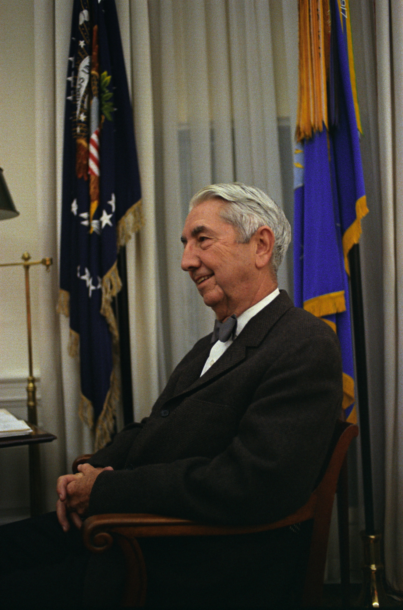 Former Associate Justice of the U.S. Supreme Court, Tom C. Clark in the Oval Office in 1967.